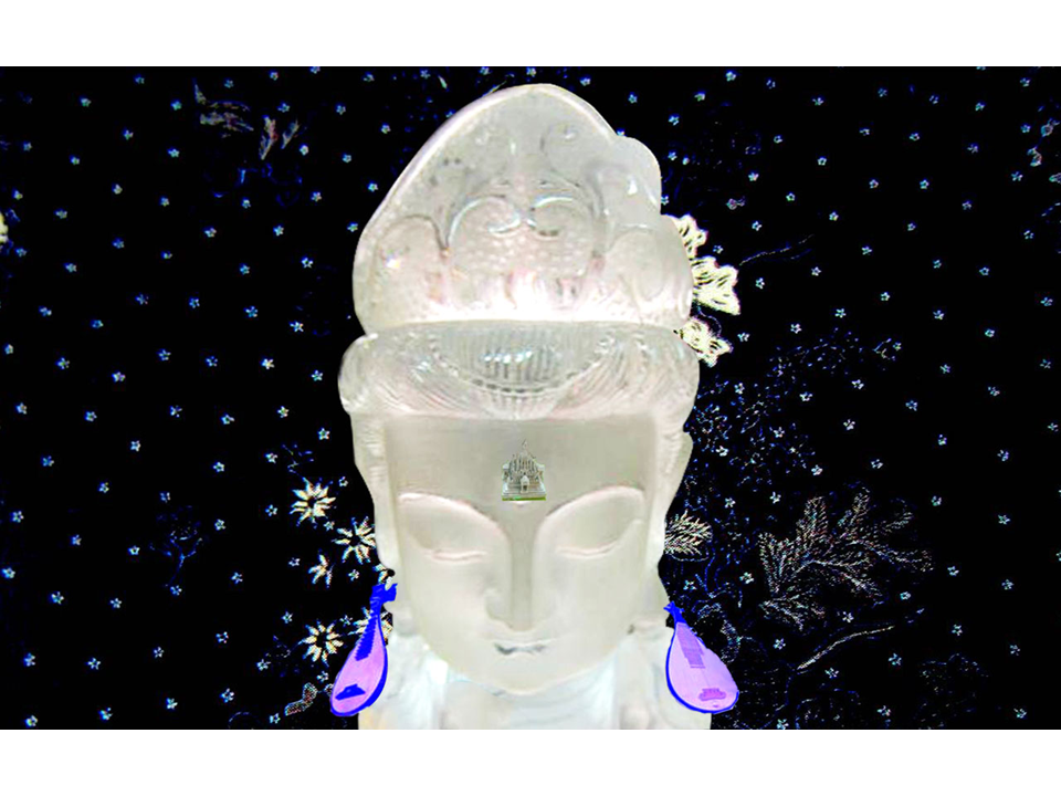 Goddess, Temples, Music Ranjit Makkuni